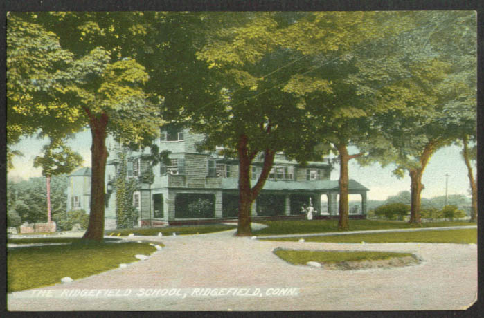 Postcard: The Ridgefield School, Ridgefield, Connecticut, 1909 postmark